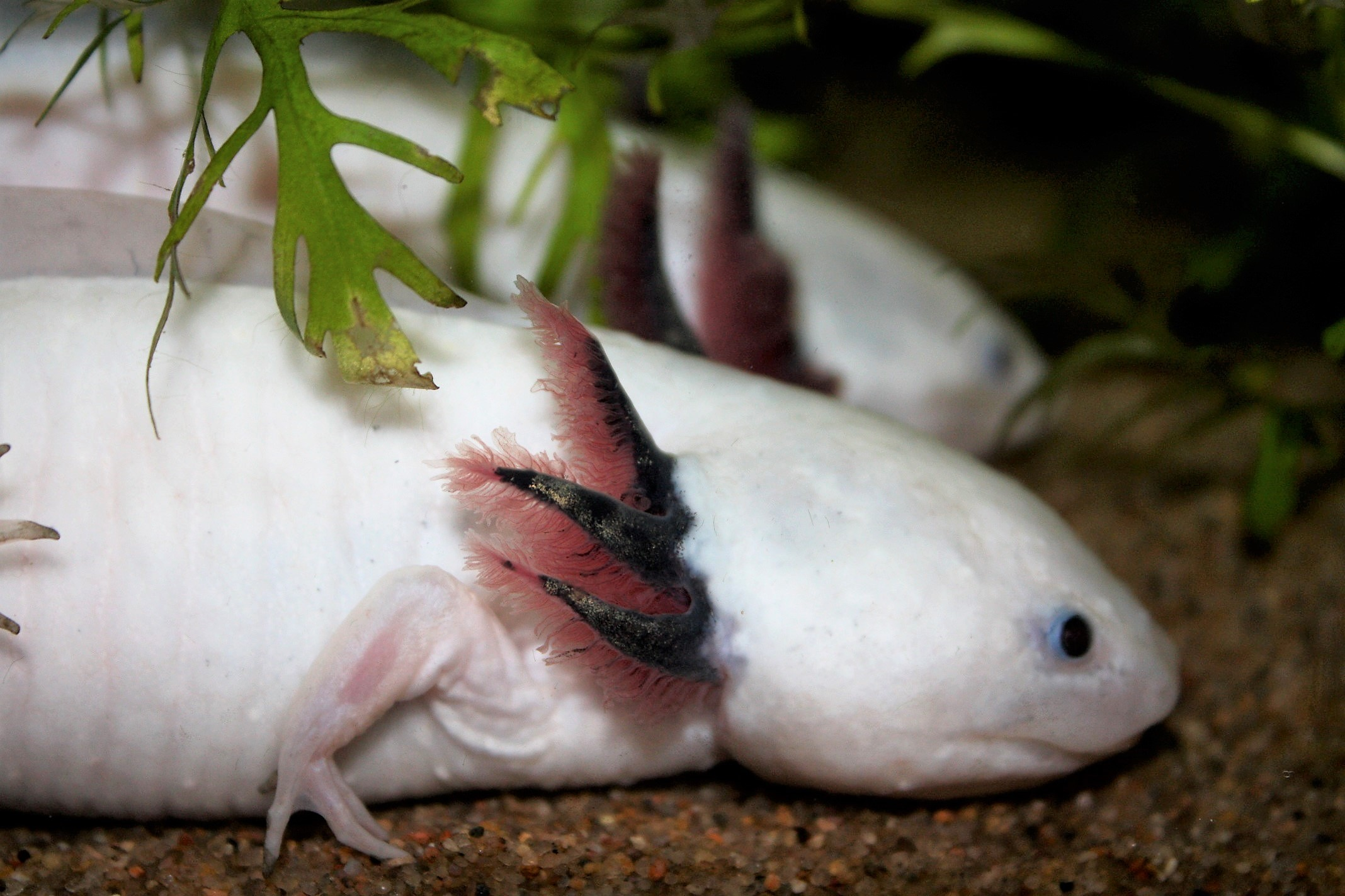 Axolotl